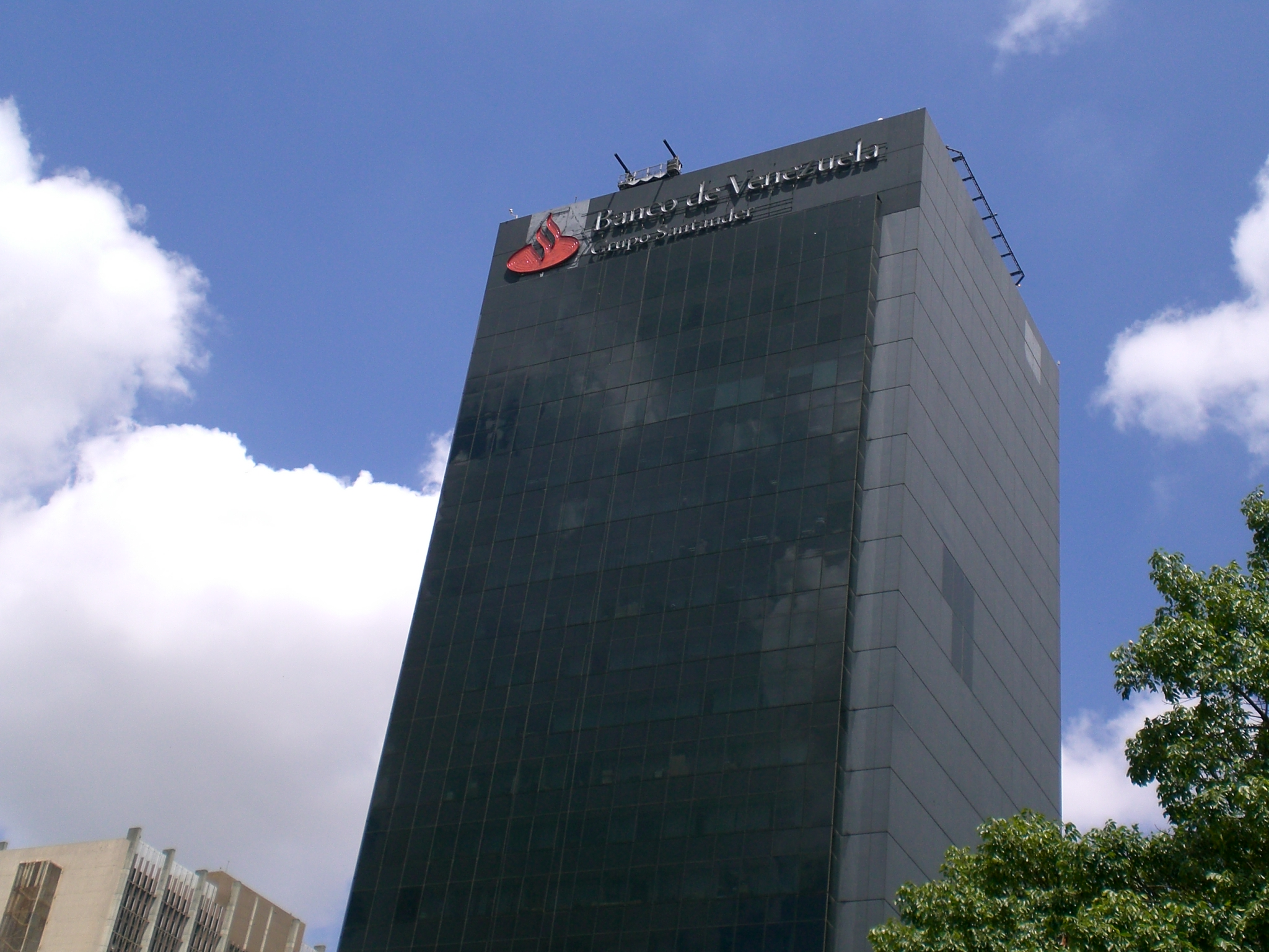 Banco de Venezuela building, Caracas, Venezuela.